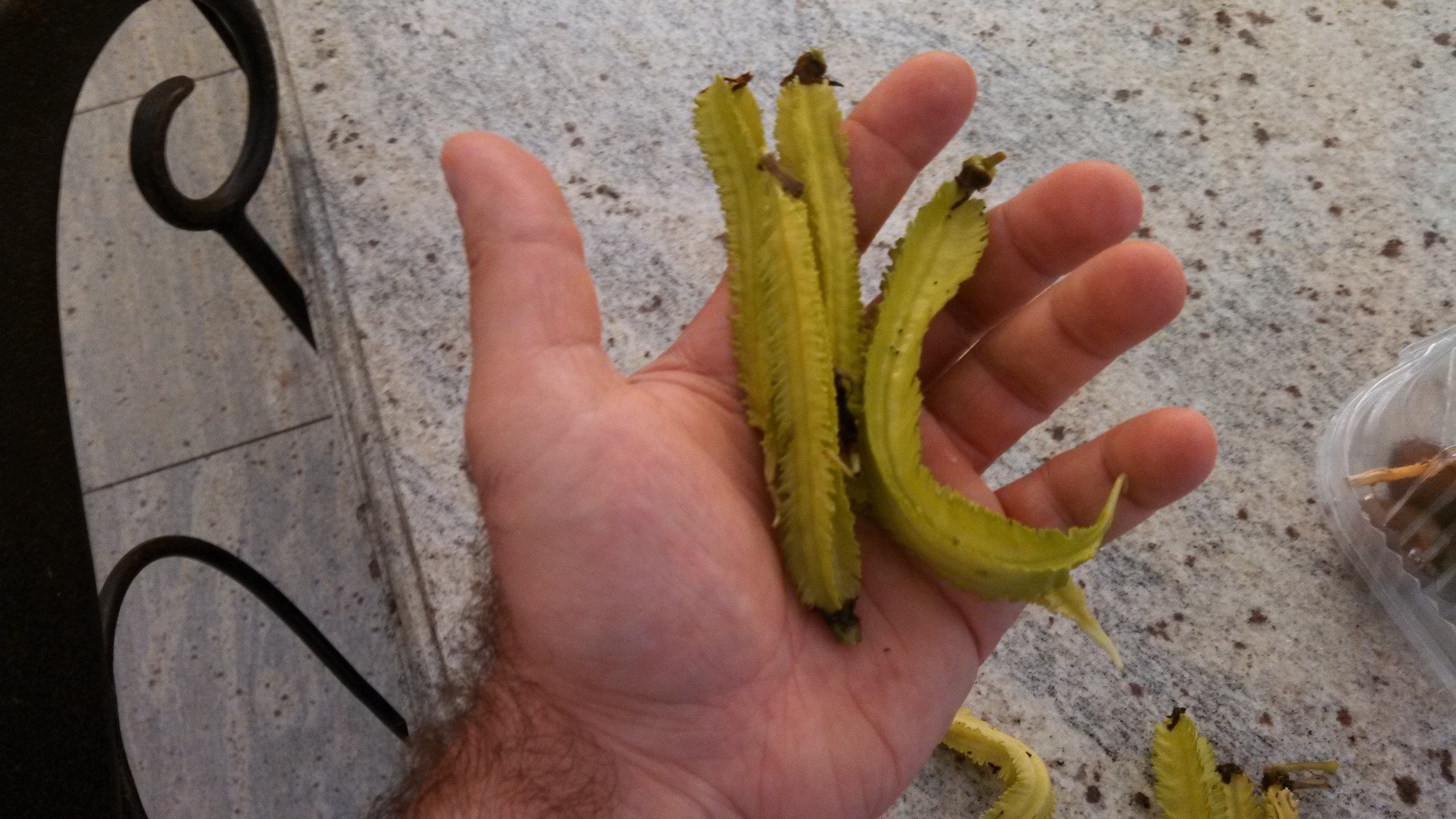 Winged Beans I grew in a South-facing raised bed compost garden in Alpine, NJ